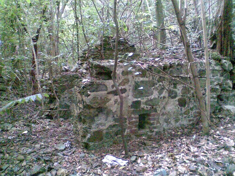 Photograph of ruin in Hunthum's Ghut, Tortola, British Virgin Islands Taken by User:Legis on 23 December 2007.